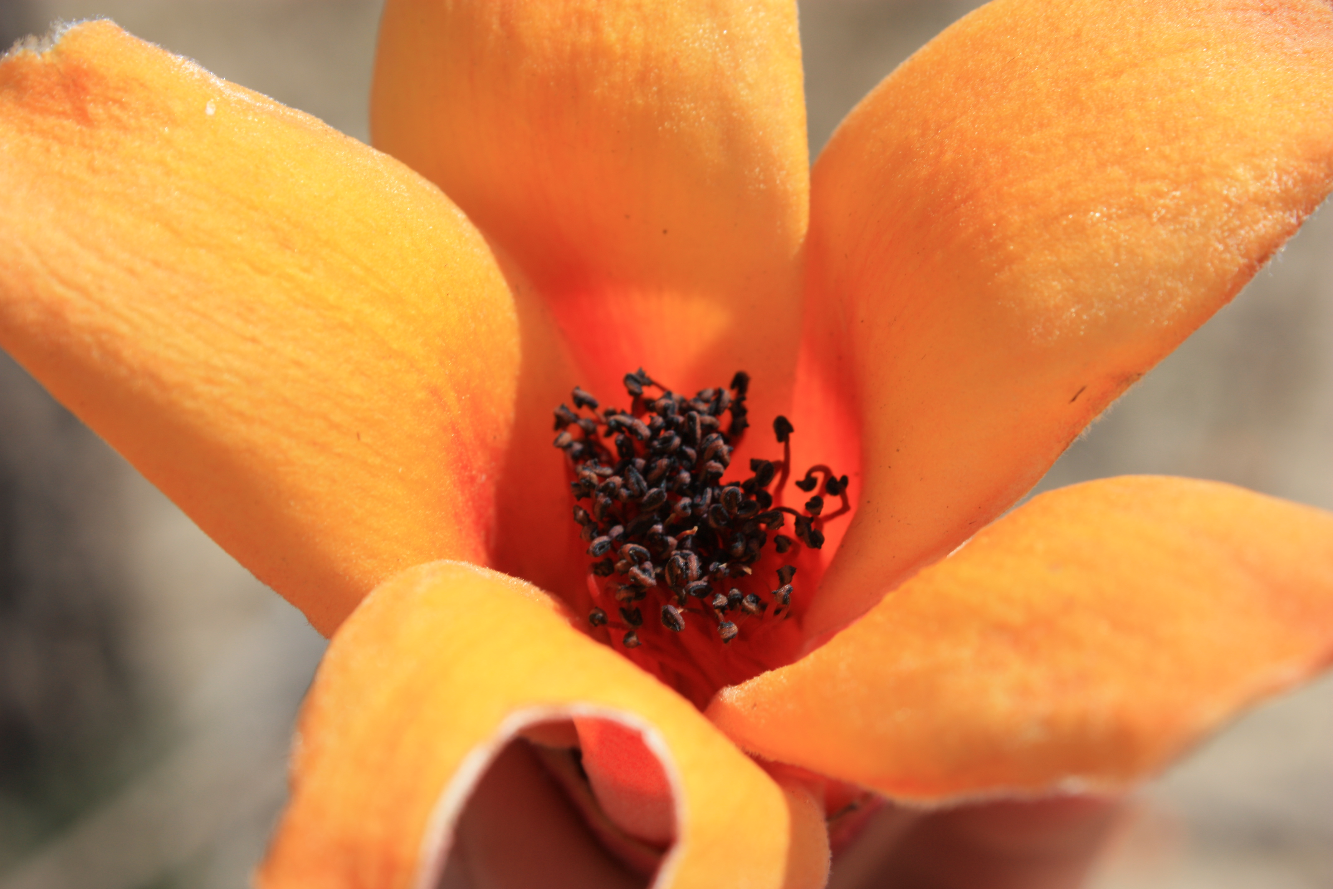 Flower of Bombax costatum, near Folonzo, SW Burkina Faso